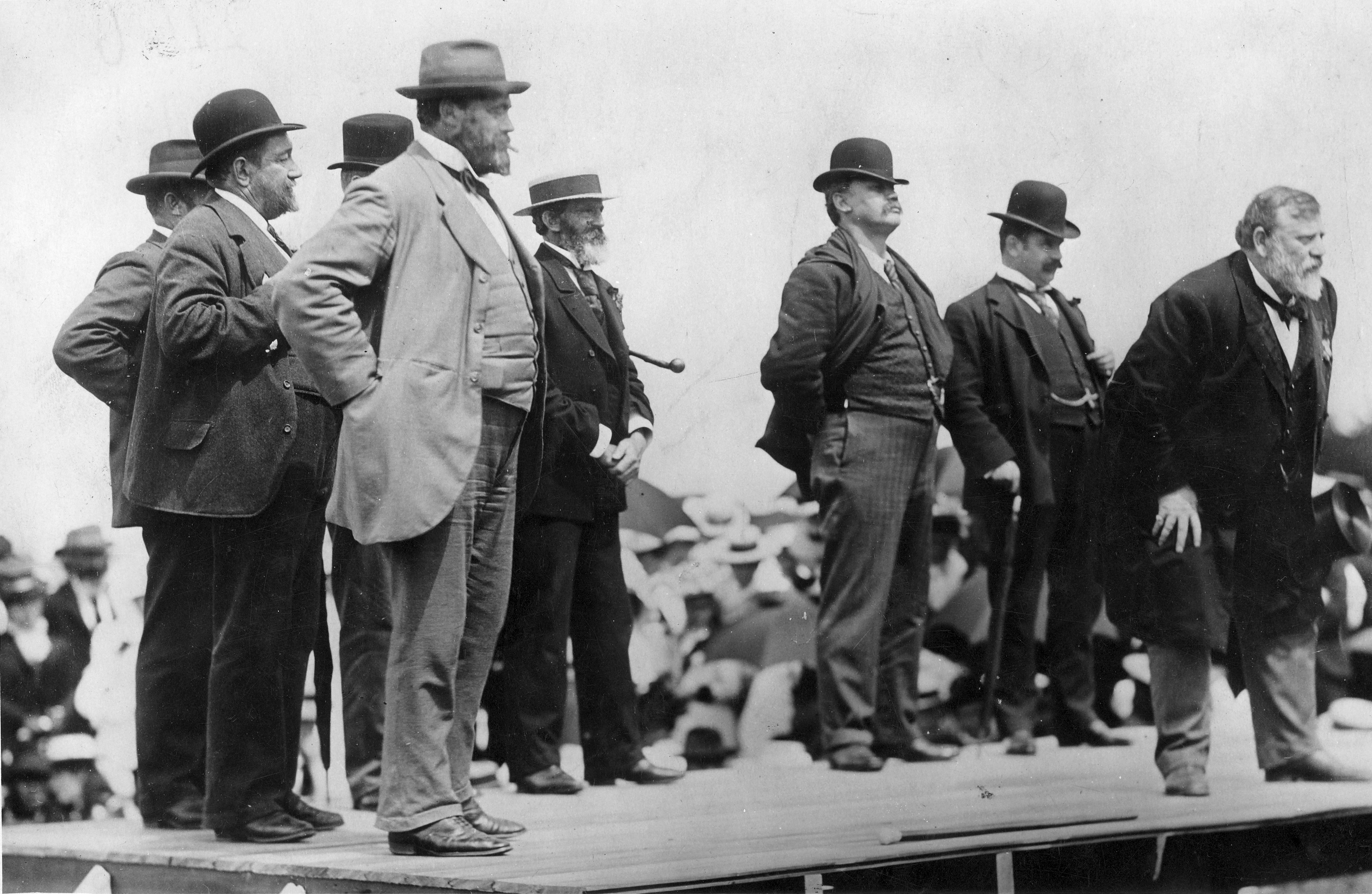 Richard John Seddon addressing a Liberal rally at Greytown, late 1890s (Seddon is leaning forward at the front of the stage) Photographer: Albert Edward Winzenberg Reference Number: 1/2-002266-F Original negative Photographic Archive, Alexander Turnbull Library Find out more about this photograph on our Manuscripts + Pictorial website 15th Prime Minister of New Zealand, in office 1893-1906